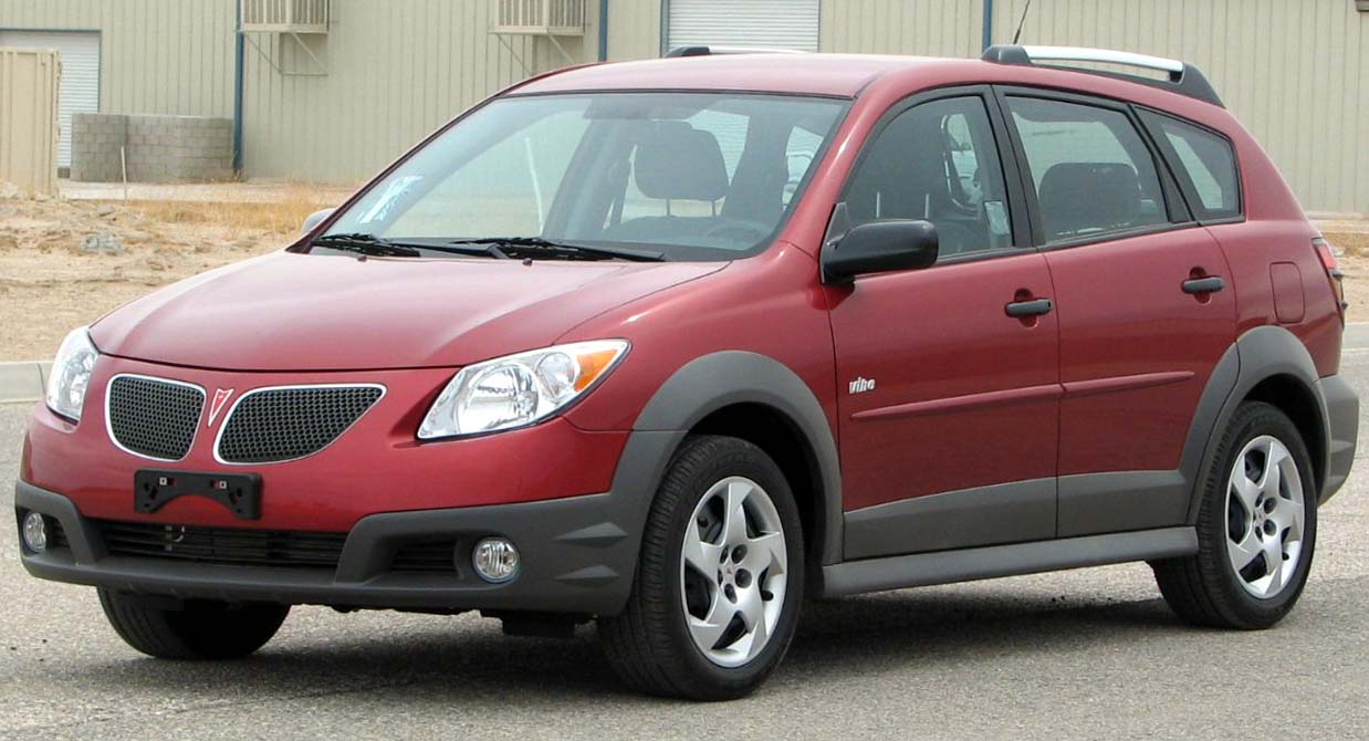 2007 Pontiac Vibe photographed in USA.